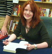 American author Richelle Mead (born November 12, 1976 in Michigan) signing books in Naperville,Illinois